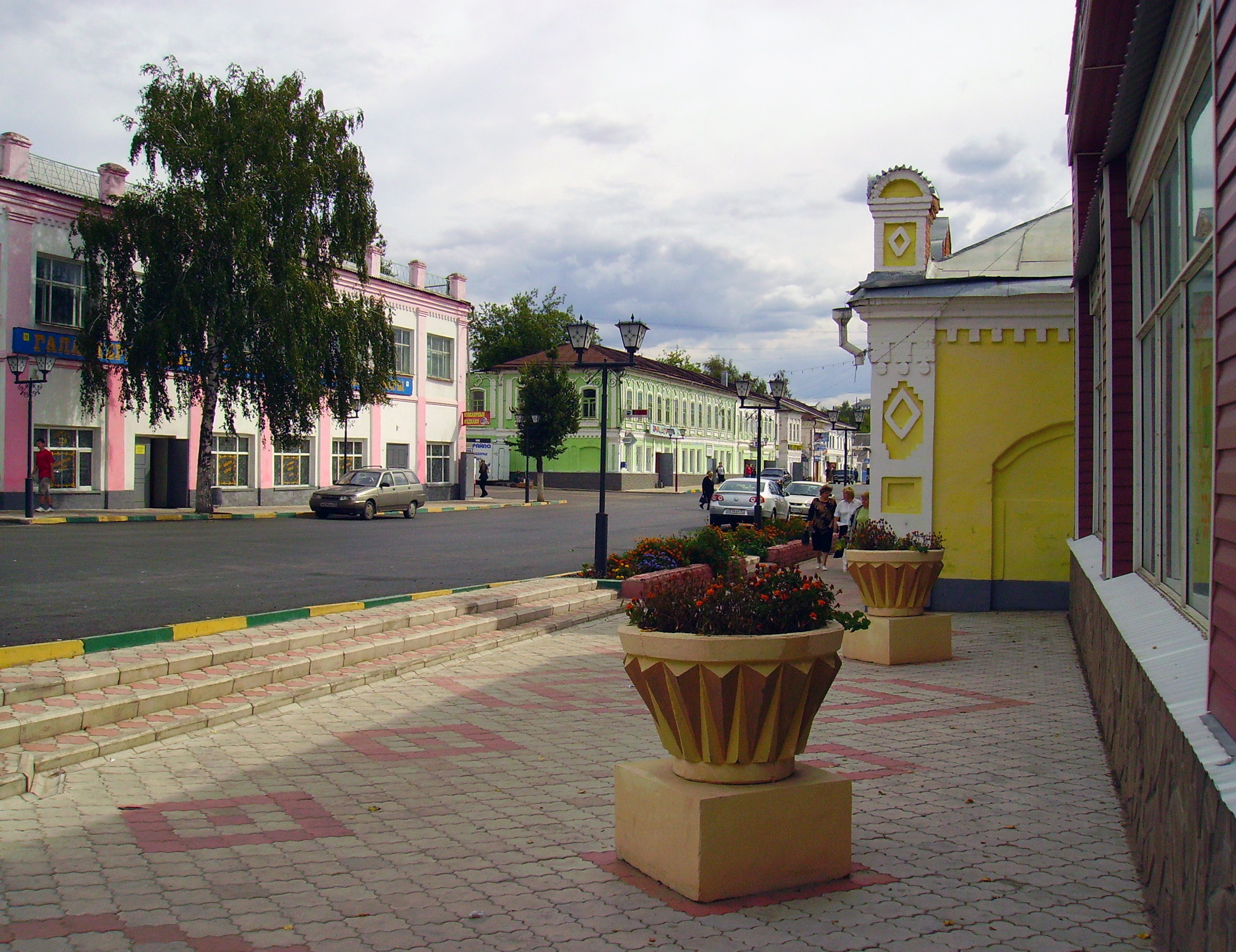 Sovetskaya Street in Sergach